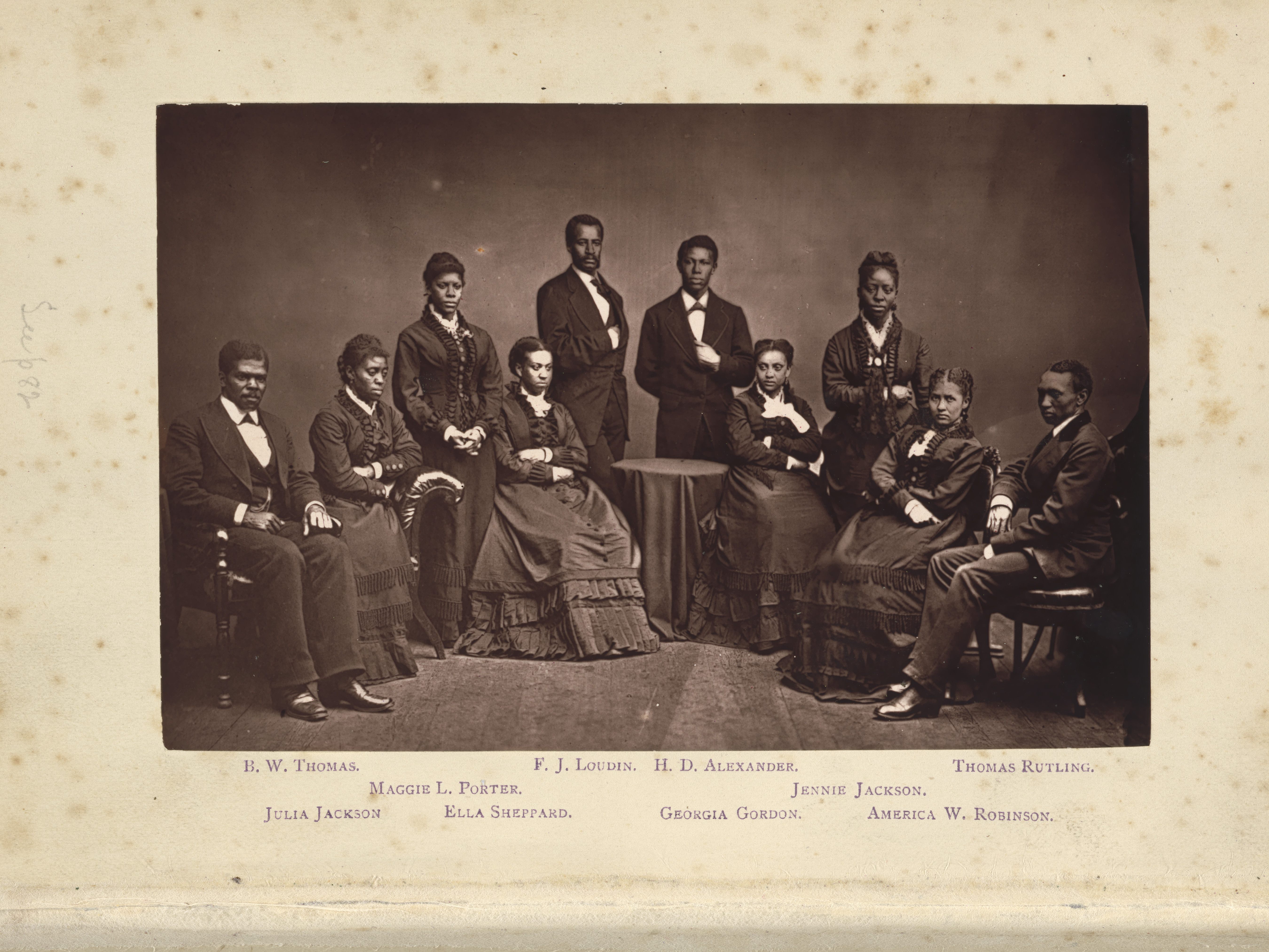 The Story of the Jubilee Singers, Ella Sheppard Moore, 1851 - 1914 , Fisk Jubilee Singers